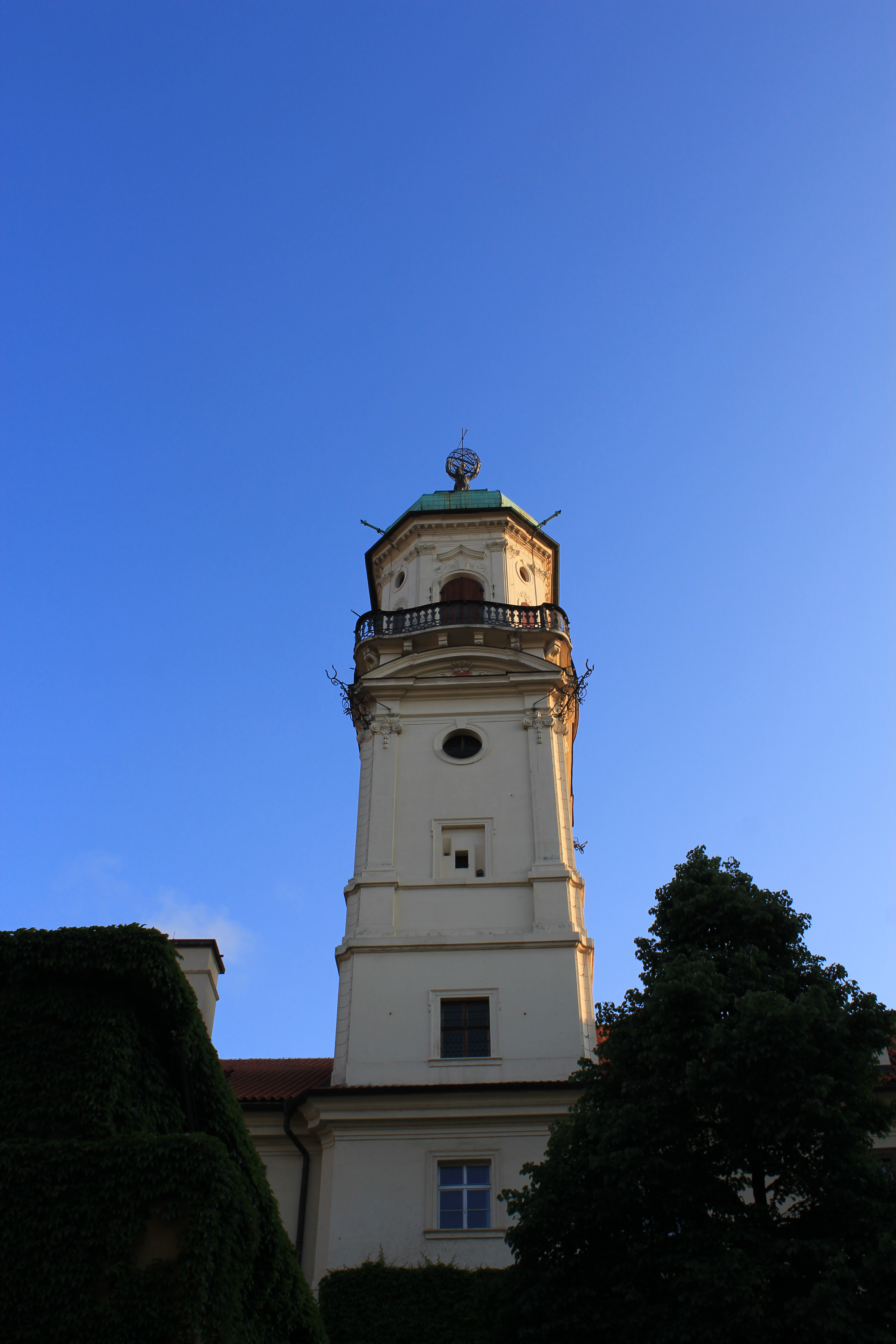 Klementinum observation tower.